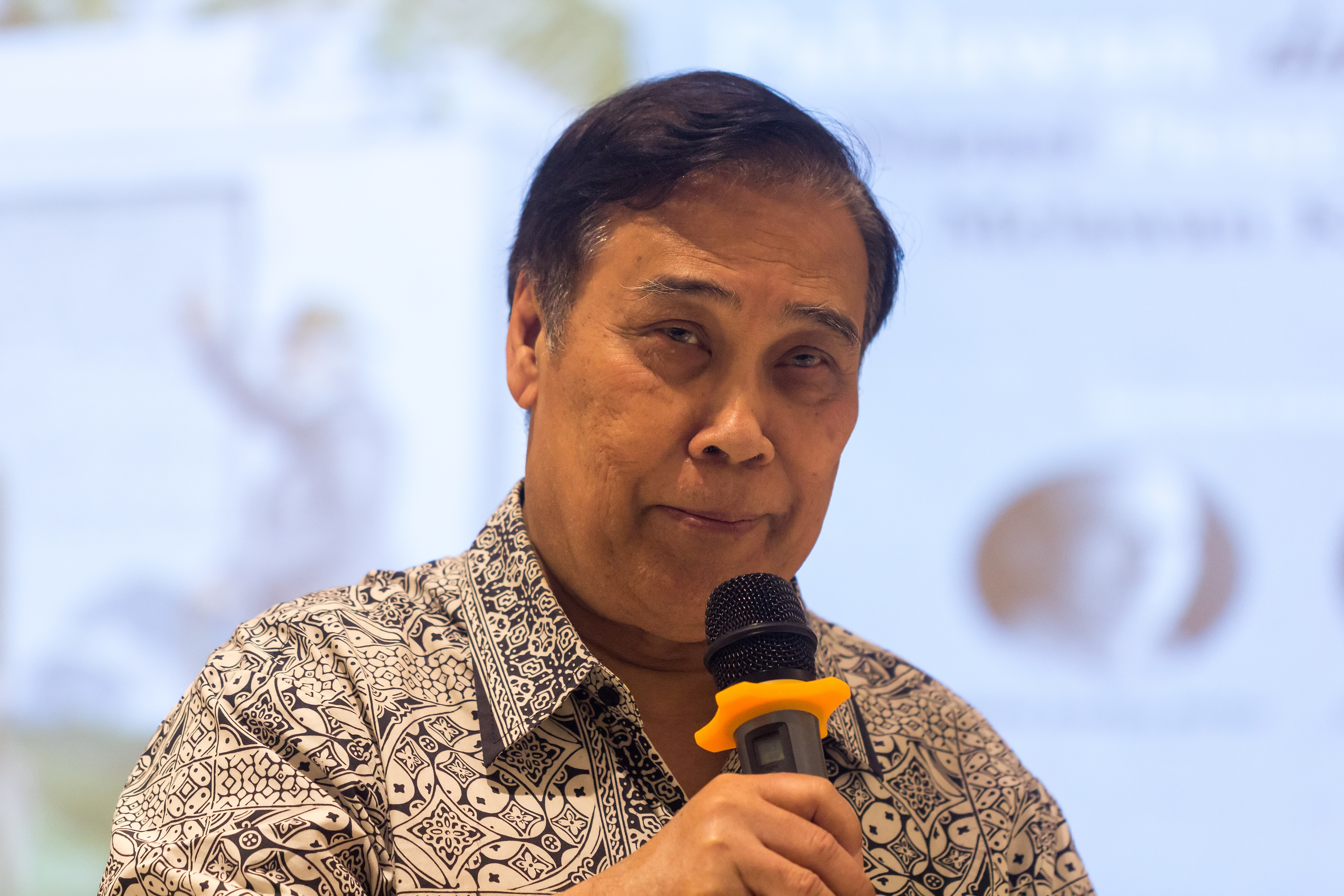 Indonesian academic Sangkot Marzuki delivering a talk at the National Library of Indonesia, 2018-06-29